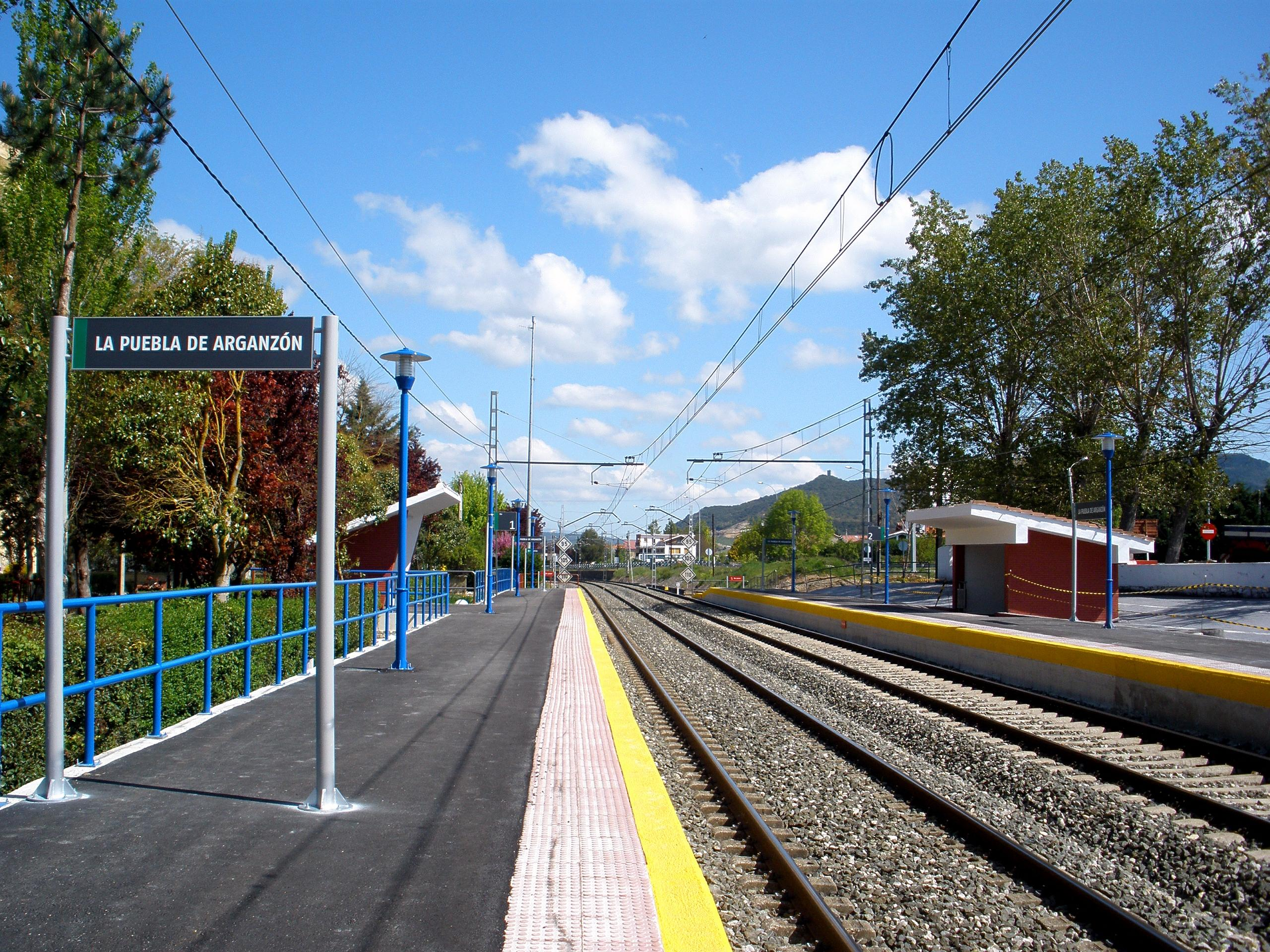 Estación de tren de La Puebla de Arganzón (Treviño, Burgos, Castilla y León, España)